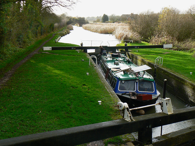 Lock on the Kennet and Avon canal, near Crofton I spoke briefly to the man on the boat who told me he spends his days going up and down the five or six lock on this stretch of the canal. An enviable life.